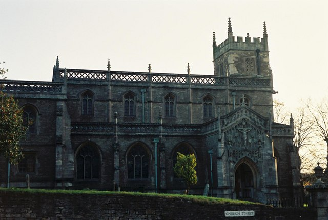 Parish church of SS Peter and Paul, Wincanton, Somerset, seen from the north